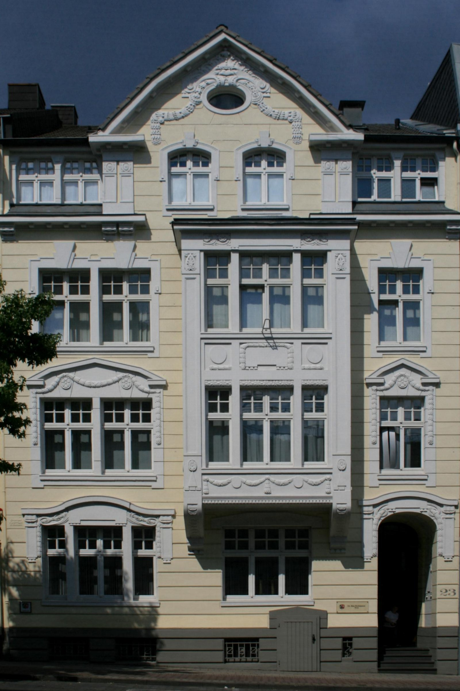 Cultural heritage monument No. St 007 in Mönchengladbach